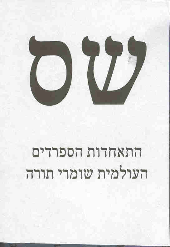 Shas ballot Israel legislative election, 2009